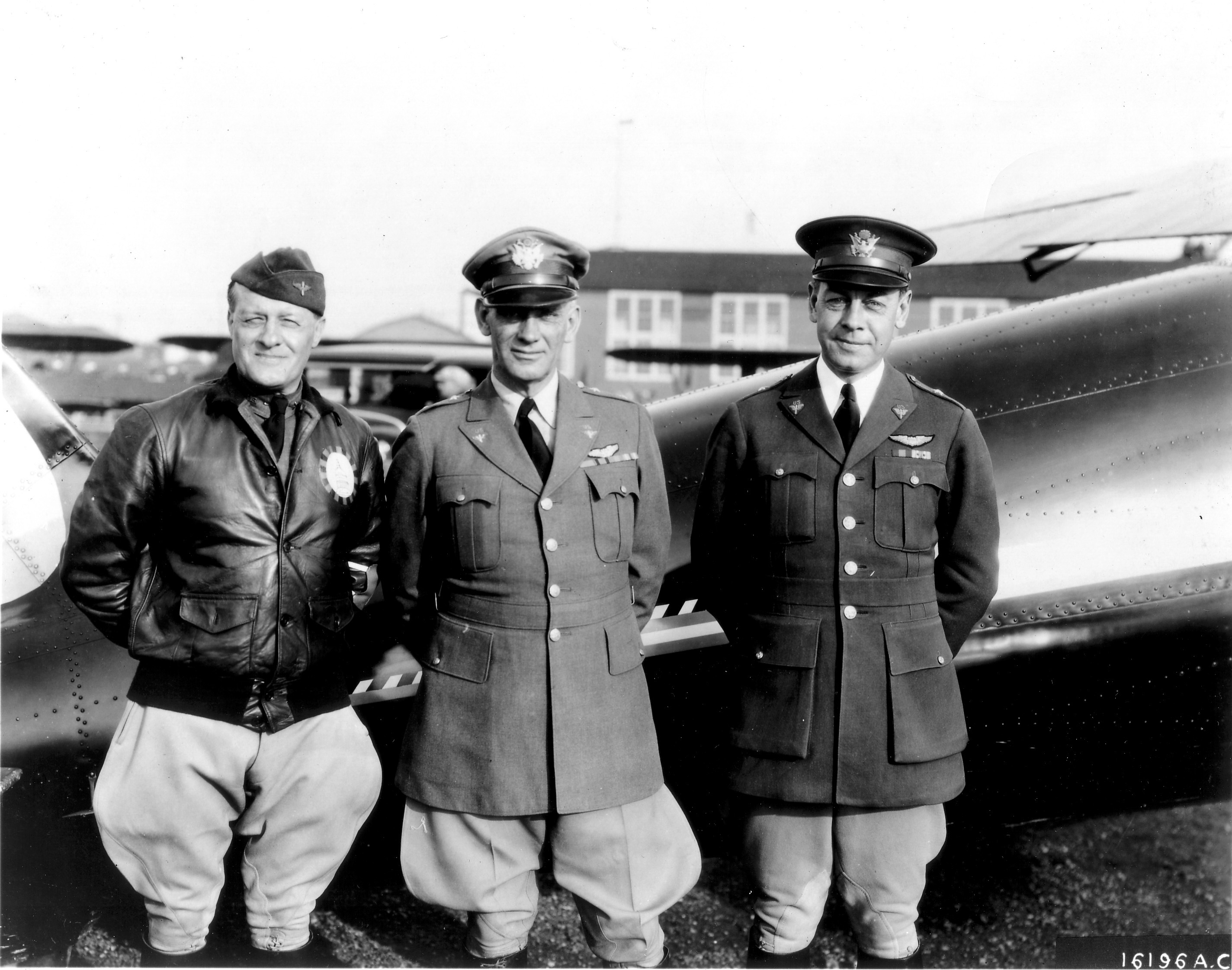 EARLY YEARS -- Brig. Gen. Benjamin D. Foulois, Maj. Gen. James. E. Fechet and Brig. Gen. H.C. Pratt